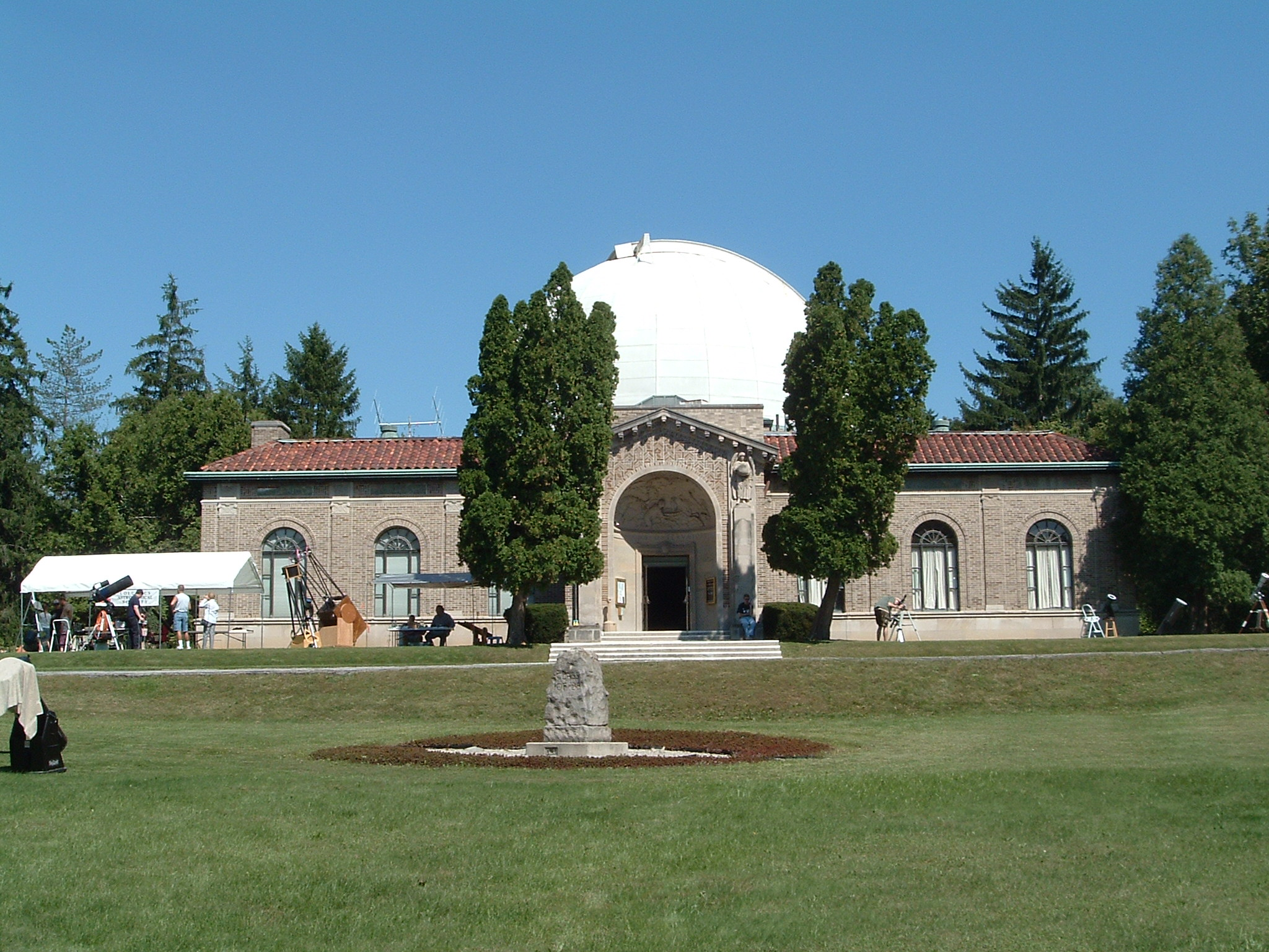 Perkins Observatory, Delaware, Ohio. Self made photo.